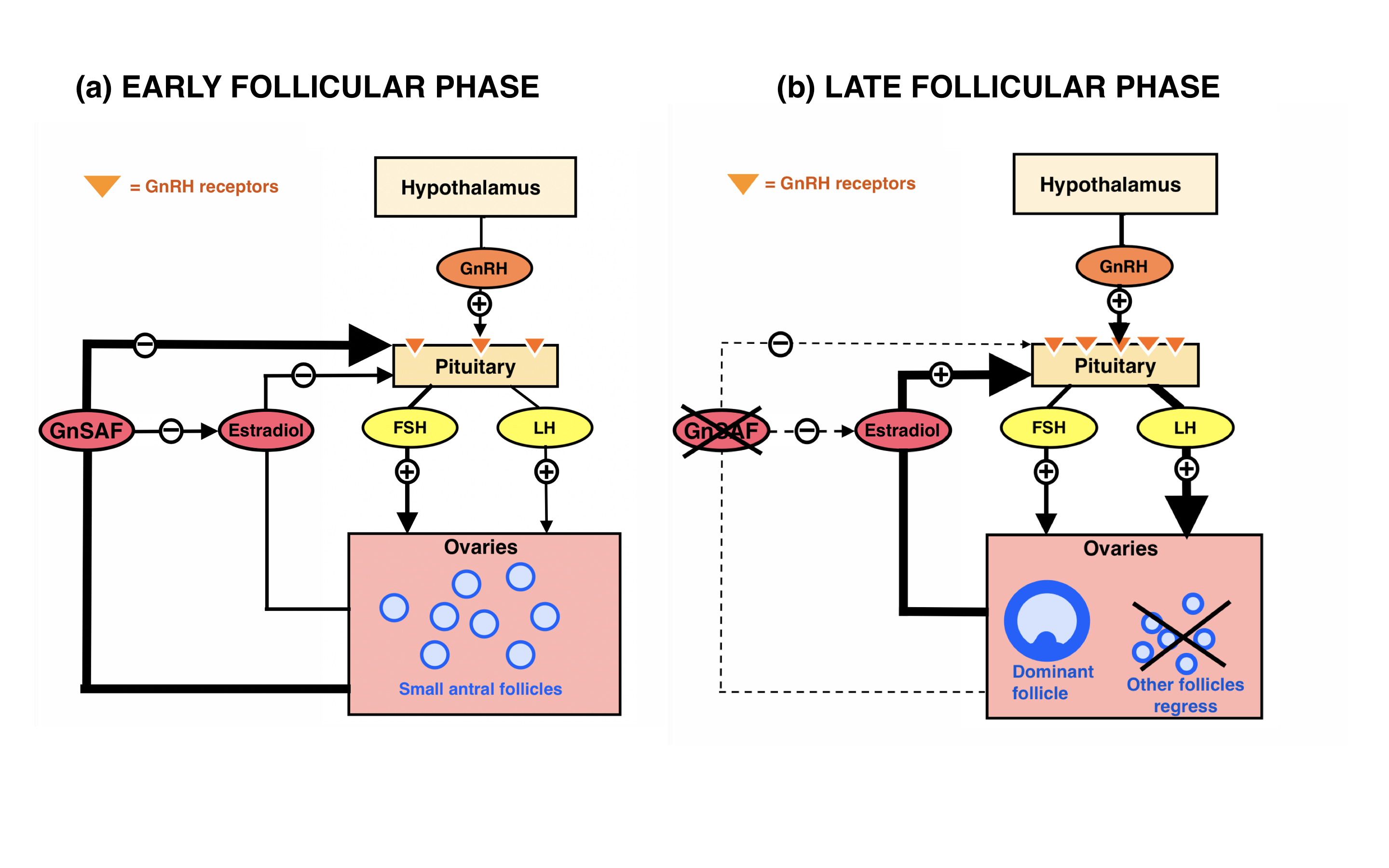 During early follicular phase, GnSAF secretion from the ovarian follicles is high and has a negative feedback effect on the pituitary. As the ovarian cycle progresses to the late follicular phase, the regression of non-dominant follicles limits GnSAF biosynthesis, which reduces the overall inhibitory effect of GnSAF on the pituitary. Once pituitary sensitivity is restored, LH secretion surges. Broken lines represent absence of action and size of the arrows indicates relative concentrations of the hormone.